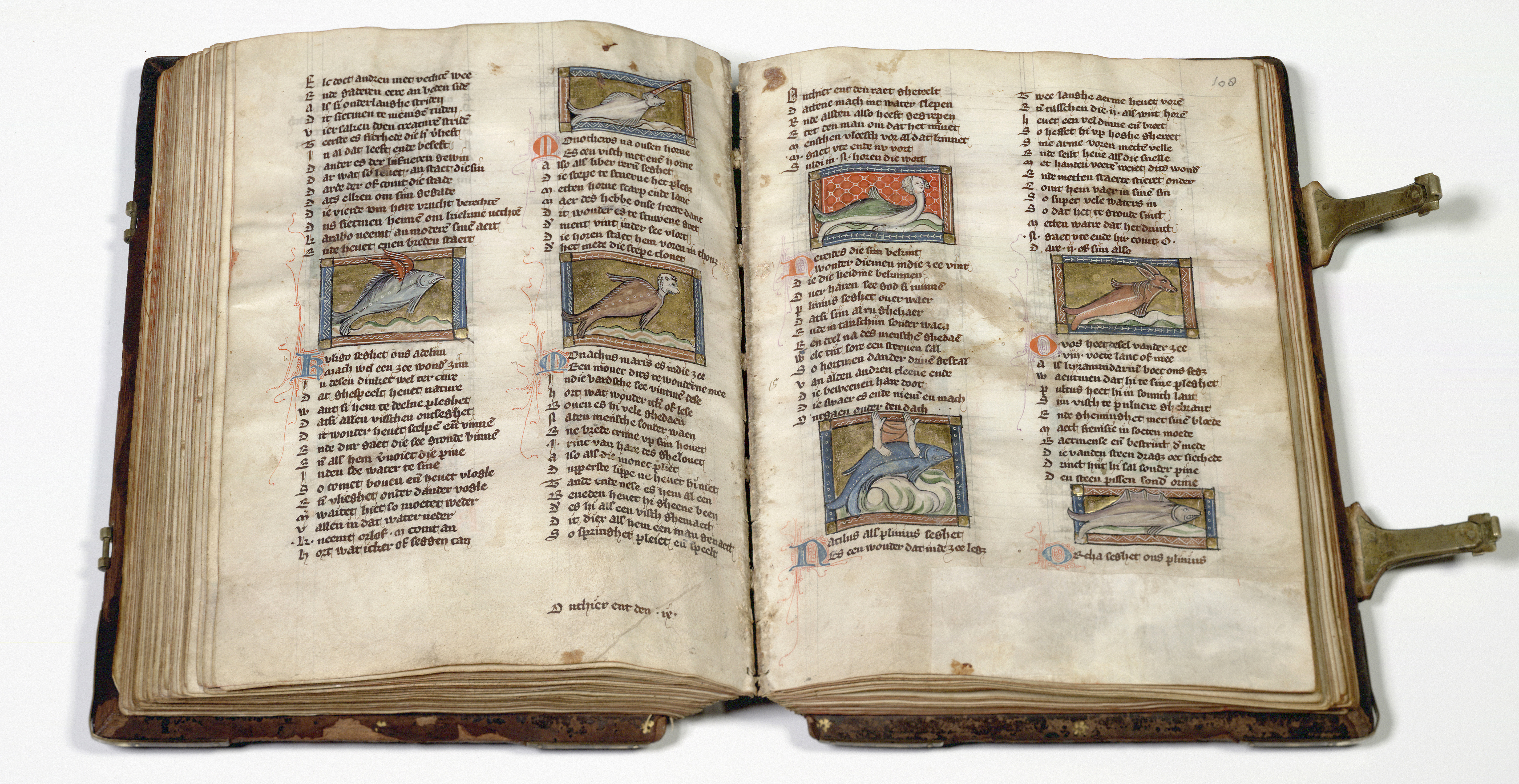 3D display of the lefthand side folio 107v and righthand side folio 108r from Der naturen bloeme (KB KA 16) by Jacob van Maerlant Miniatures on the left folio 107v Kuligo Monocheros Monachus marinus See these miniatures on the website of the KB: Kuligo - Monocheros - Monachus marinus Miniatures on the right folio 108r Nereide (sea-nymph) Nancillus Onos Orcha (sea mammal) See these miniatures on the website of the KB: Nereide - Nancillus - Onos - Orcha